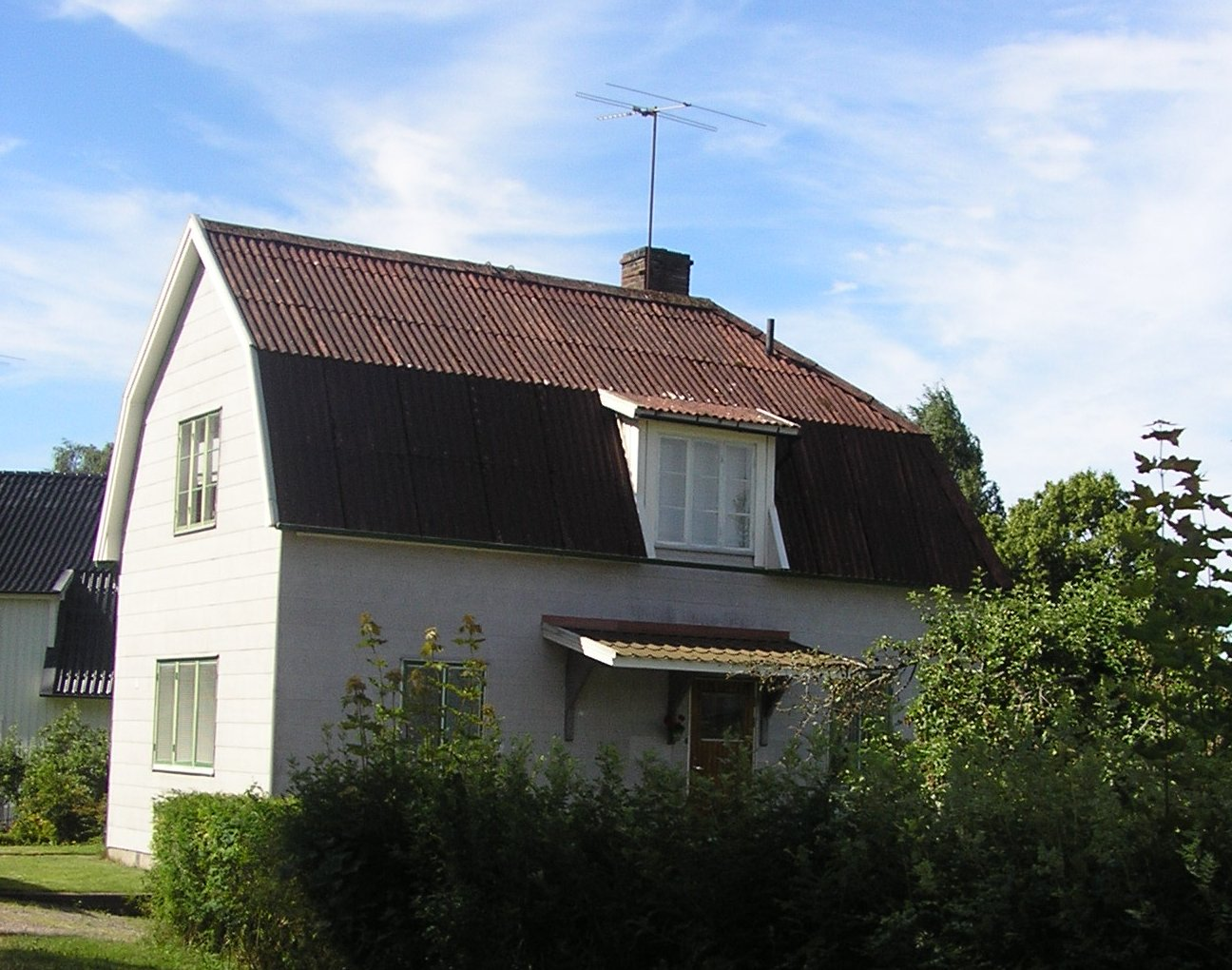 A house with Eternit roof and paneling.